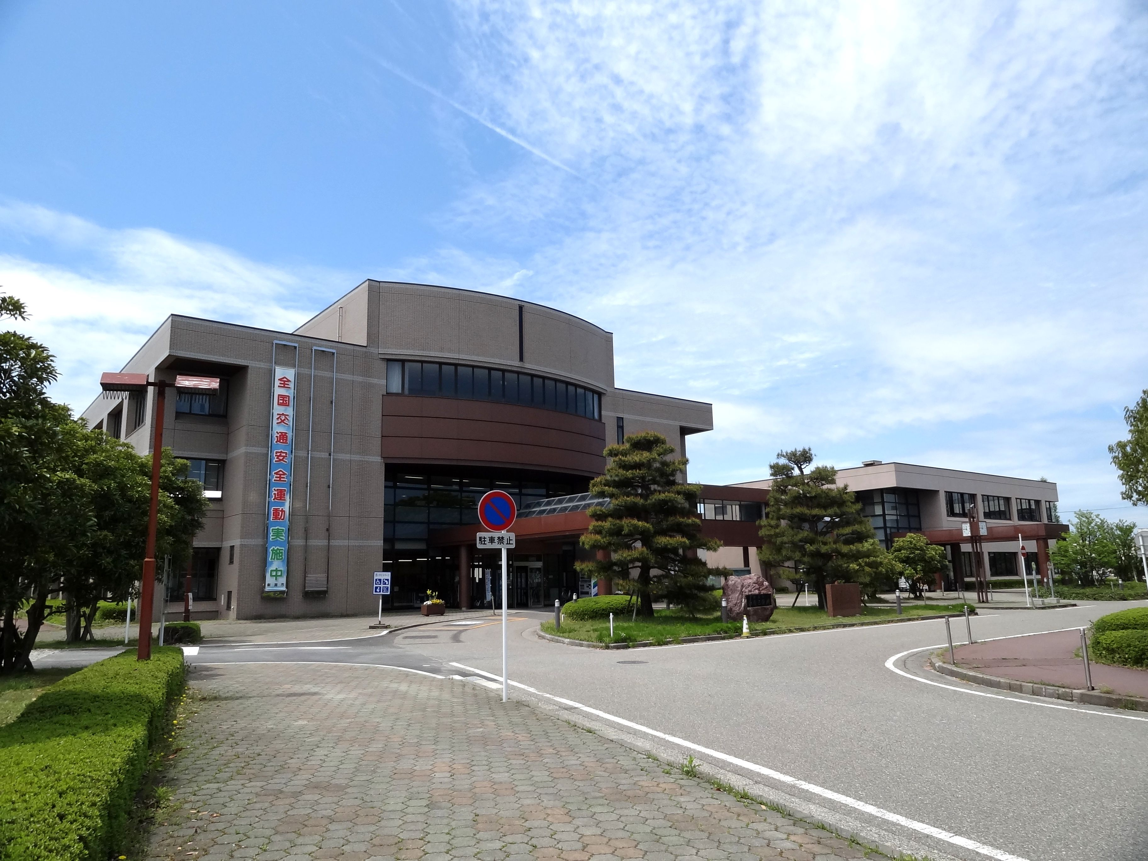 Niigata city Konan ward office